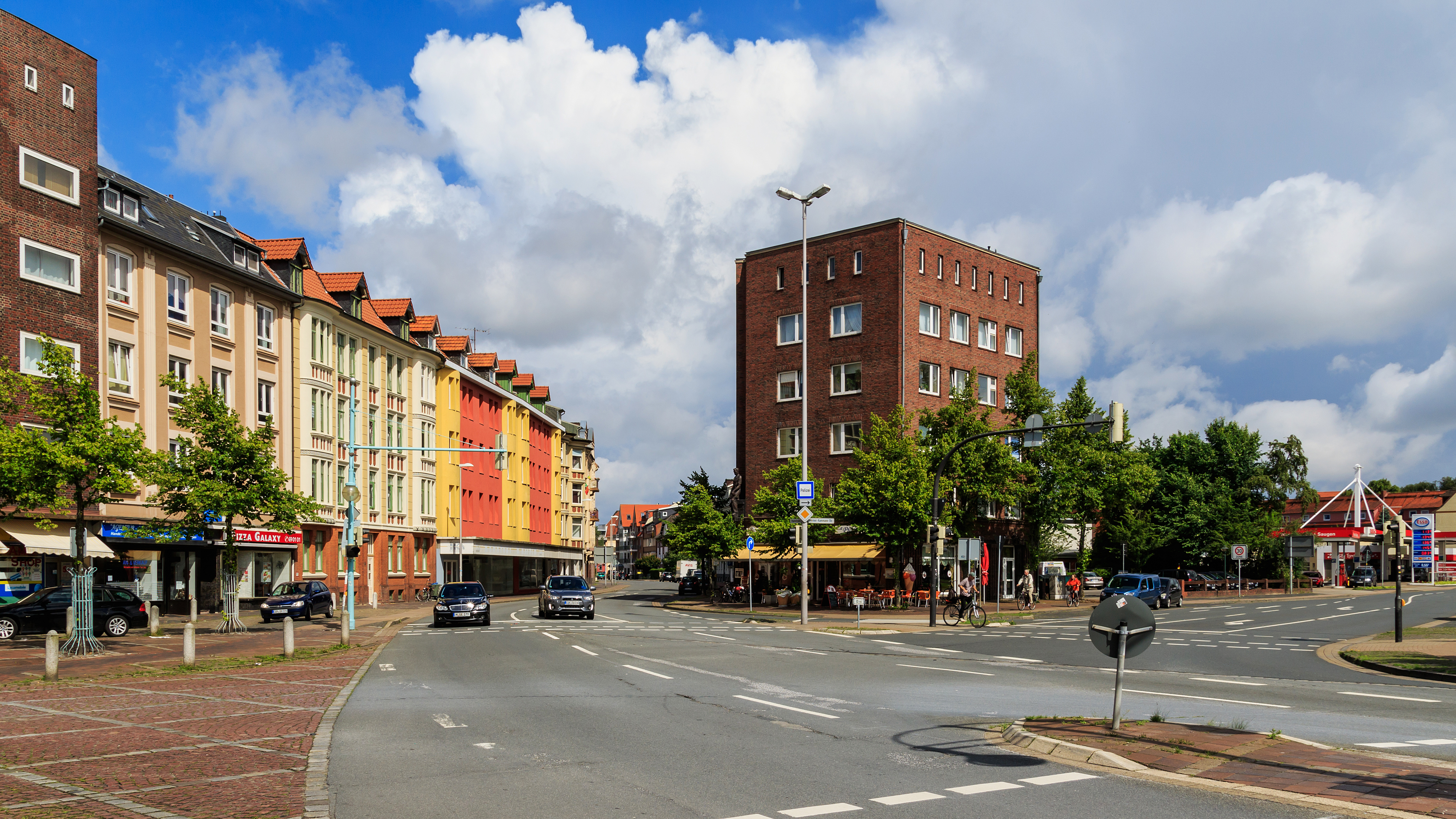 Karl-Olfers-Platz in Cuxhaven, Germany